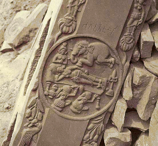 The descent of Buddha, Bharhut